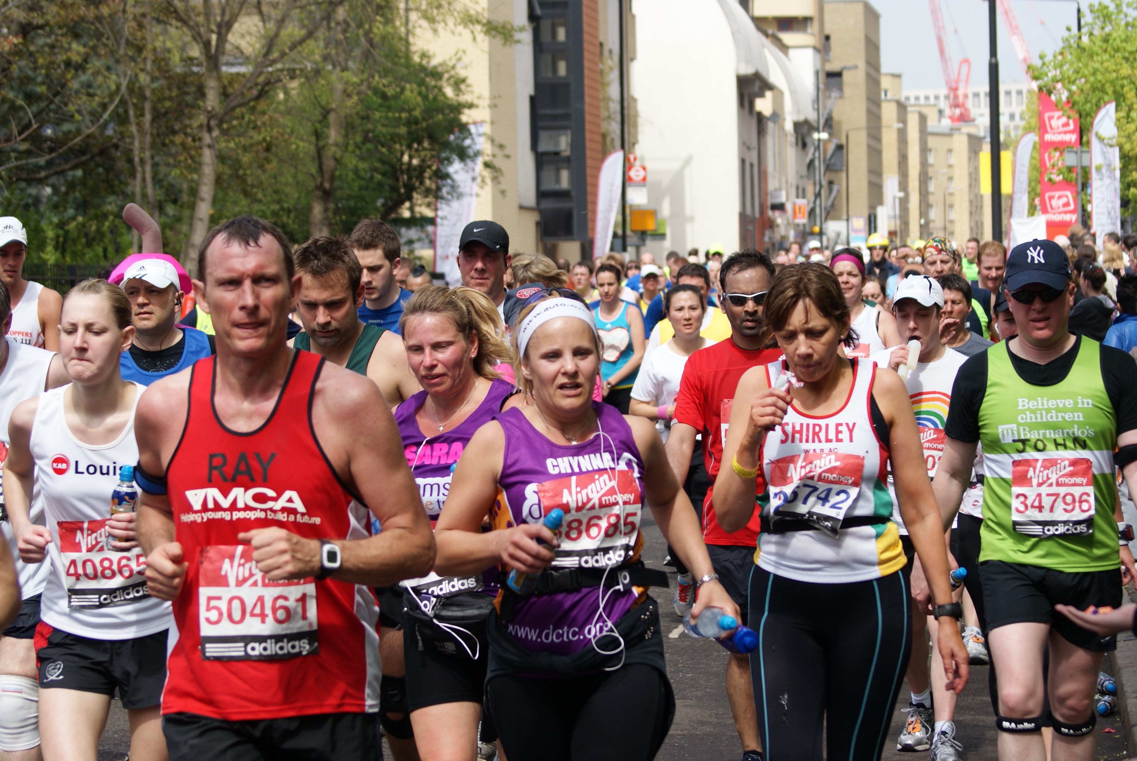 The w:2010 London Marathon approaching the 16-mile point